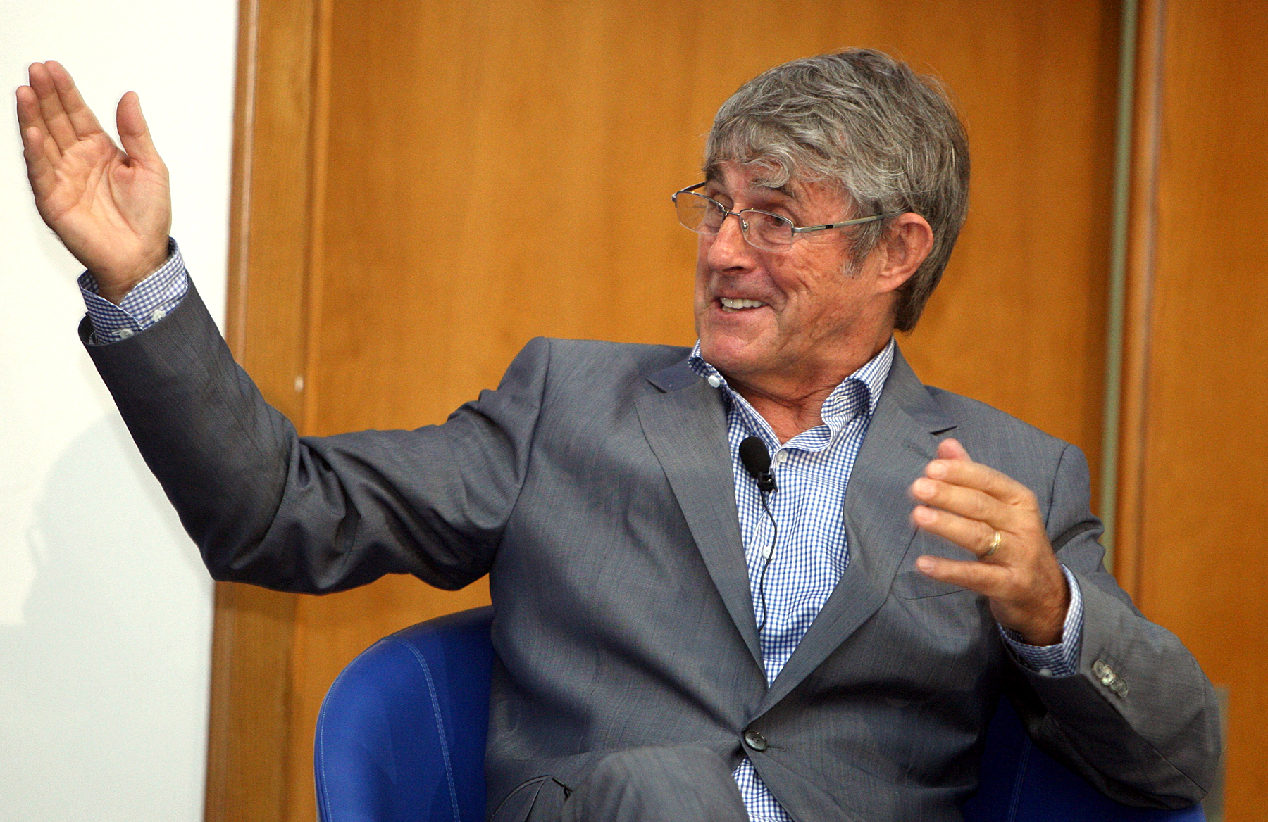 Former coach Bora Milutinovic attends a session at the Aspire4Sport Congress and Exhibition at the ASPIRE Academy.